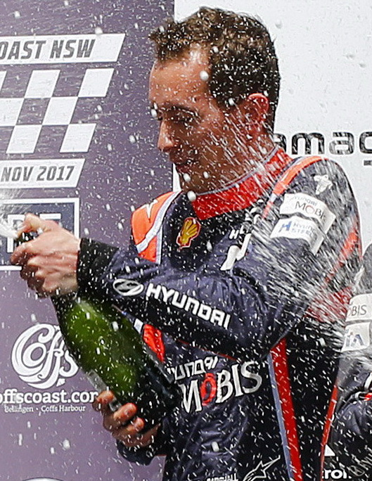 2017 FIA World Rally Championship Round 13, Rally Australia 16 - 19 November 2017 Sebastian Marshall Photographer: Sarah Vessely Worldwide copyright: Hyundai Motorsport GmbH